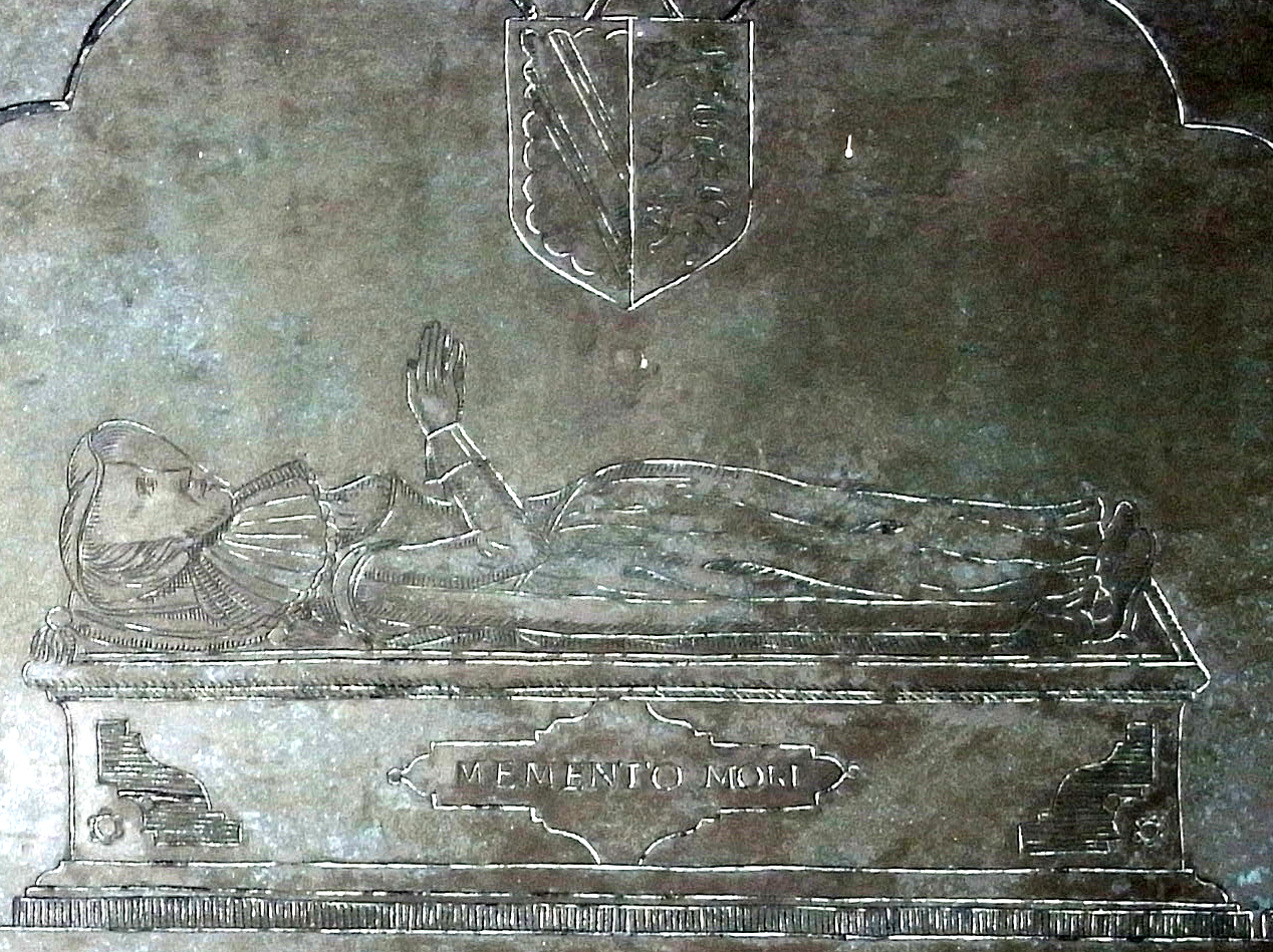 Detail from monumental brass in Sandford Church, Devon, of Mary Carew (d.1604) wife of Walter Dowrich of Dowrich in the parish of Sandford. Above her is an escutcheon showing Dowrish (Argent, a bend cotised sable a bordure engrailed of the last) impaling Carew (Or, three lions passant sable)